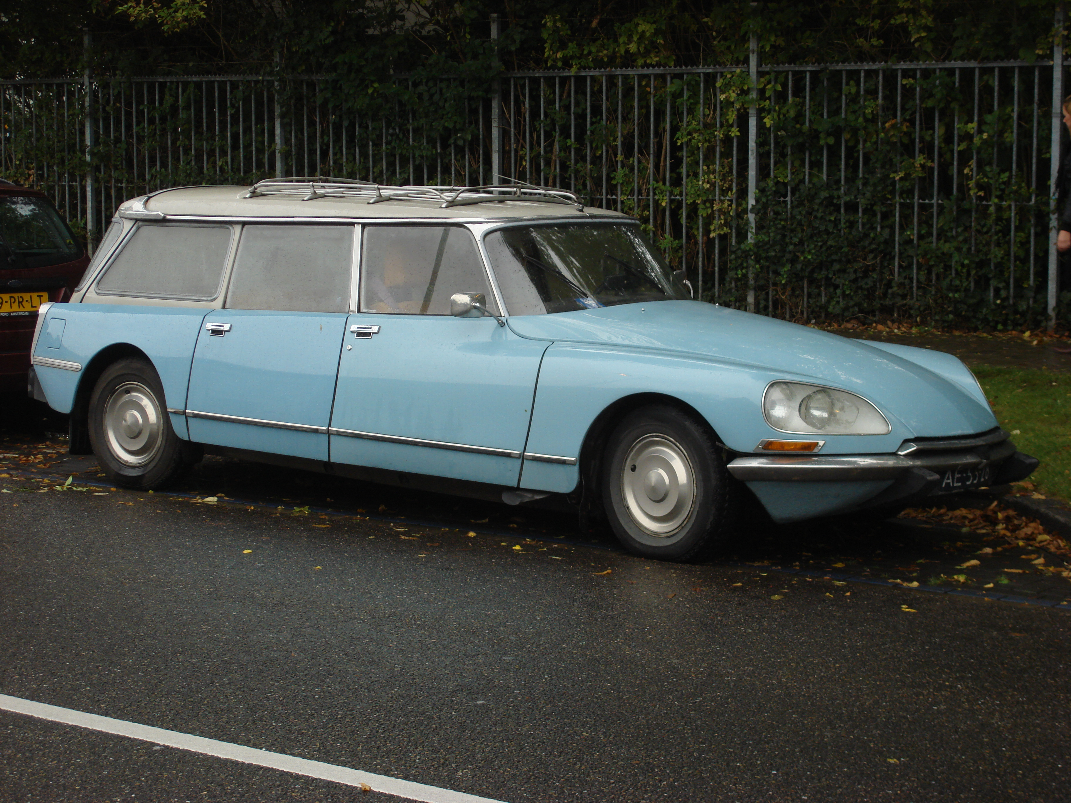 Citroën DS estate Amsterdam